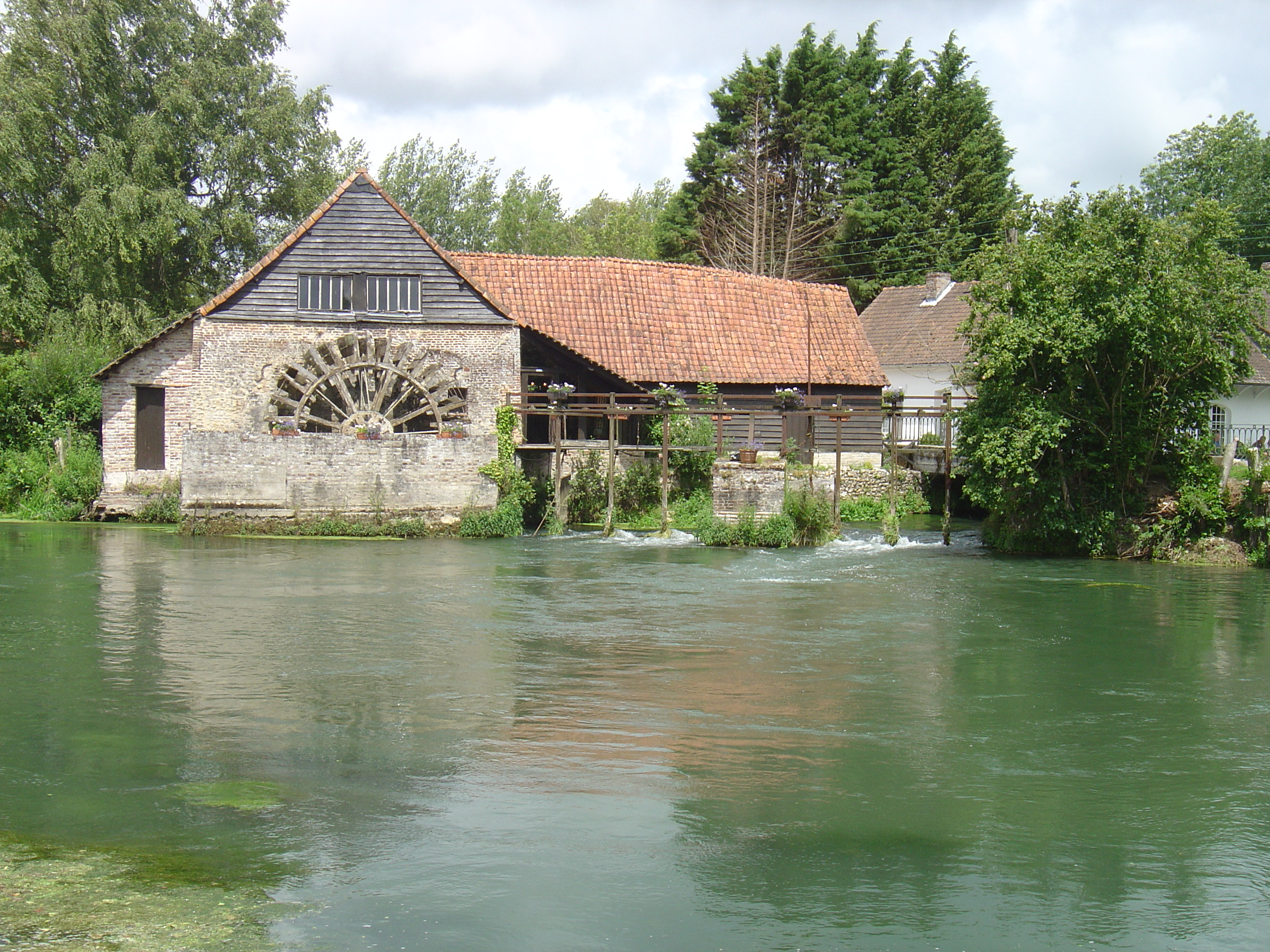 Watermill near Maintenay, France on Authie river